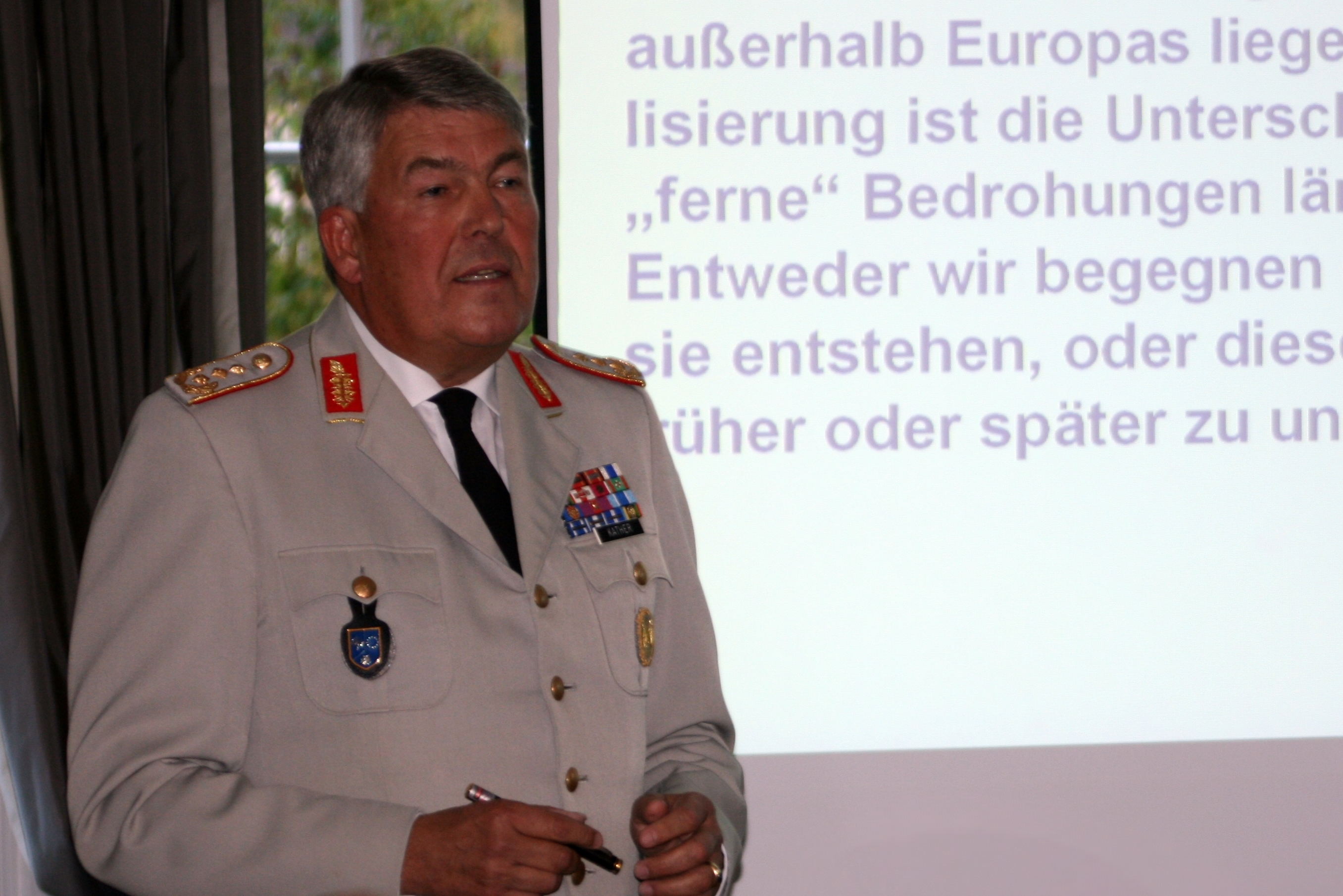 General Kather during a lecture